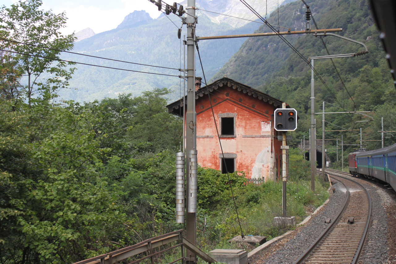 Watchman's house between Varzo and Preglia stations.